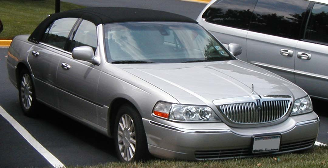 2003-2006 Lincoln Town Car photographed in USA.